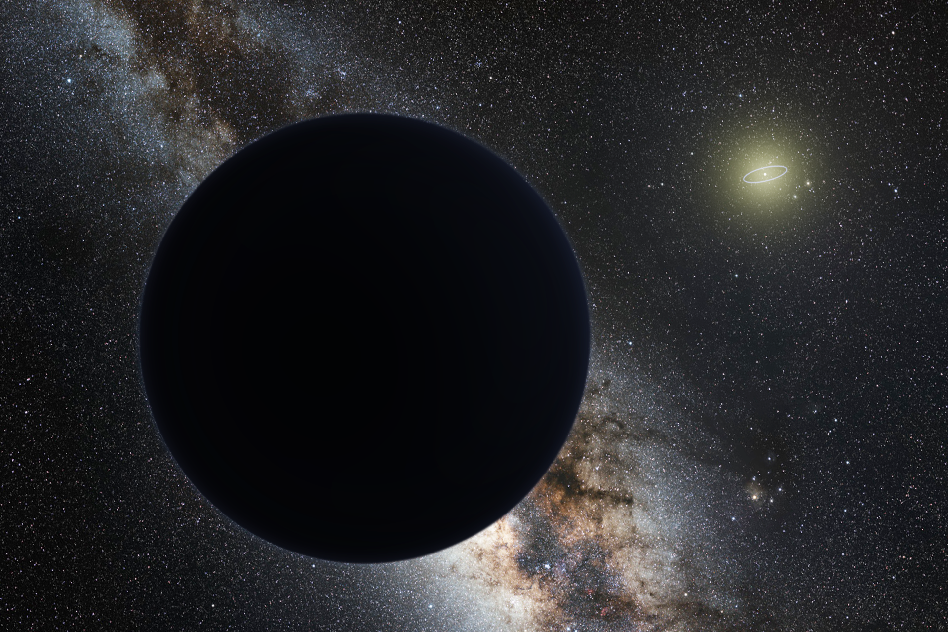 Artist's impression of Planet Nine as an ice giant eclipsing the central Milky Way, with a star-like Sun in the distance. Neptune's orbit is shown as a small ellipse around the Sun.The sky view and appearance are based on the conjectures of its co-proposer, Mike Brown. This geometry is similar to that at [1]